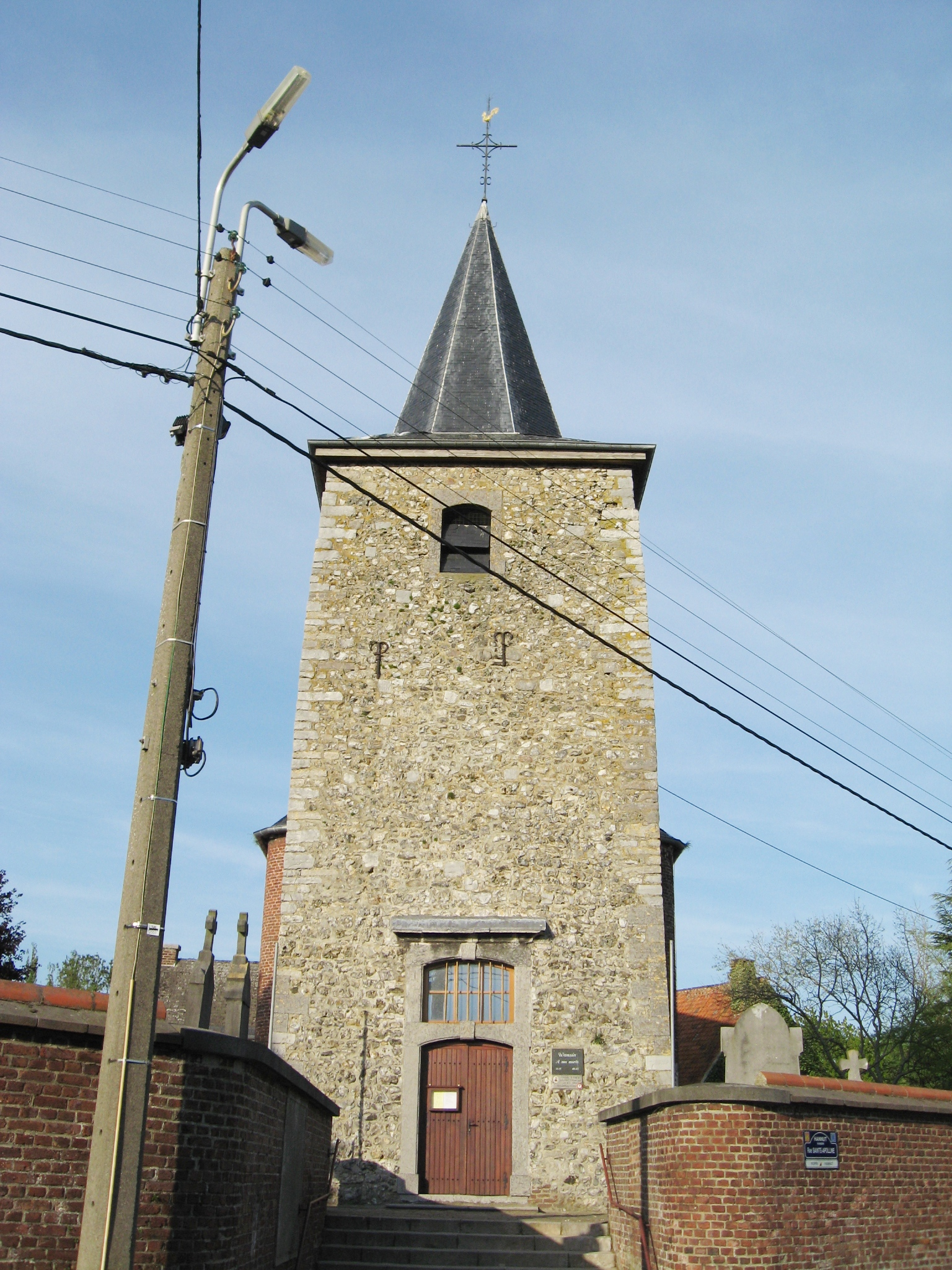 Church of Saint Appolonia in Wansin, Hannut, Liège, Belgium